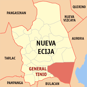 Map of Nueva Ecija showing the location of General Tinio